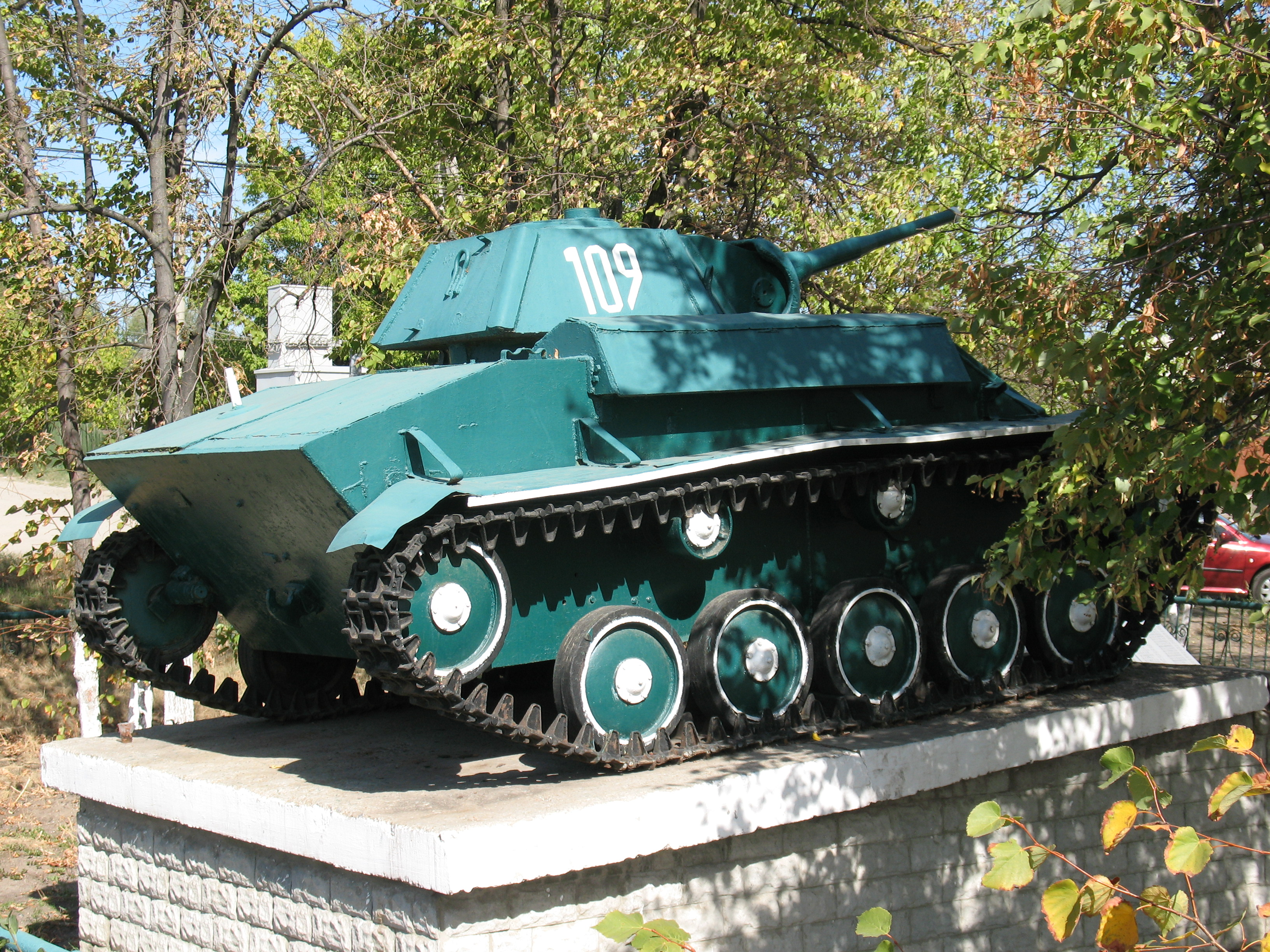 T-70M Soviet WWII tank. Monument in Solonitsevka.